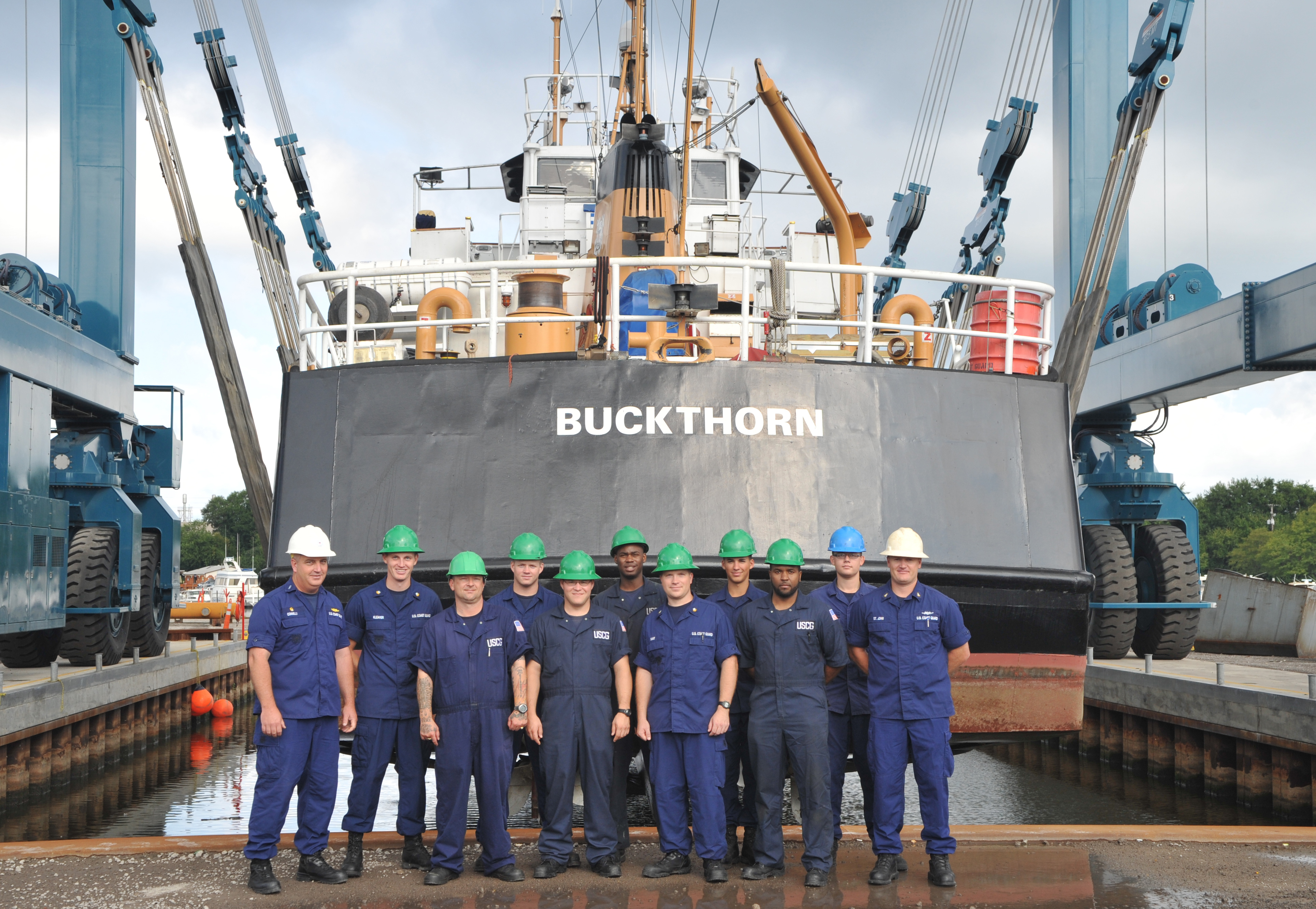 Crew of the Coast Guard Cutter Buckthorn pause to take a picture in front of the cutter while it is being lifted out of the water by a travel lift at the Great Lakes Ship Yard in Cleveland, Aug. 28, 2012. The Buckthorn, commissioned Aug. 18, 1963, is the oldest cutter in use on the Great Lakes. Coast Guard photo by Petty Officer 3rd Class Lauren Laughlin